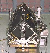 Image of the Advanced Camera for Surveys prior to its installation aboard the Hubble Space Telescope. From [1]. Modest Genius talk 00:00, 25 April 2007 (UTC)